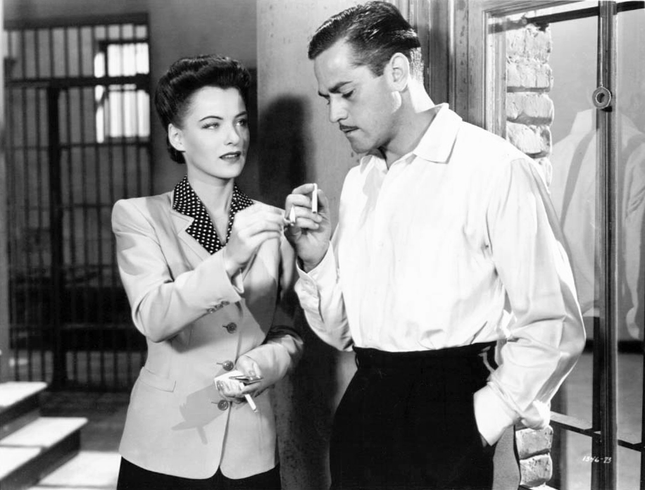 Publicity still of Ella Raines and Alan Curtis in the 1944 film, Phantom Lady